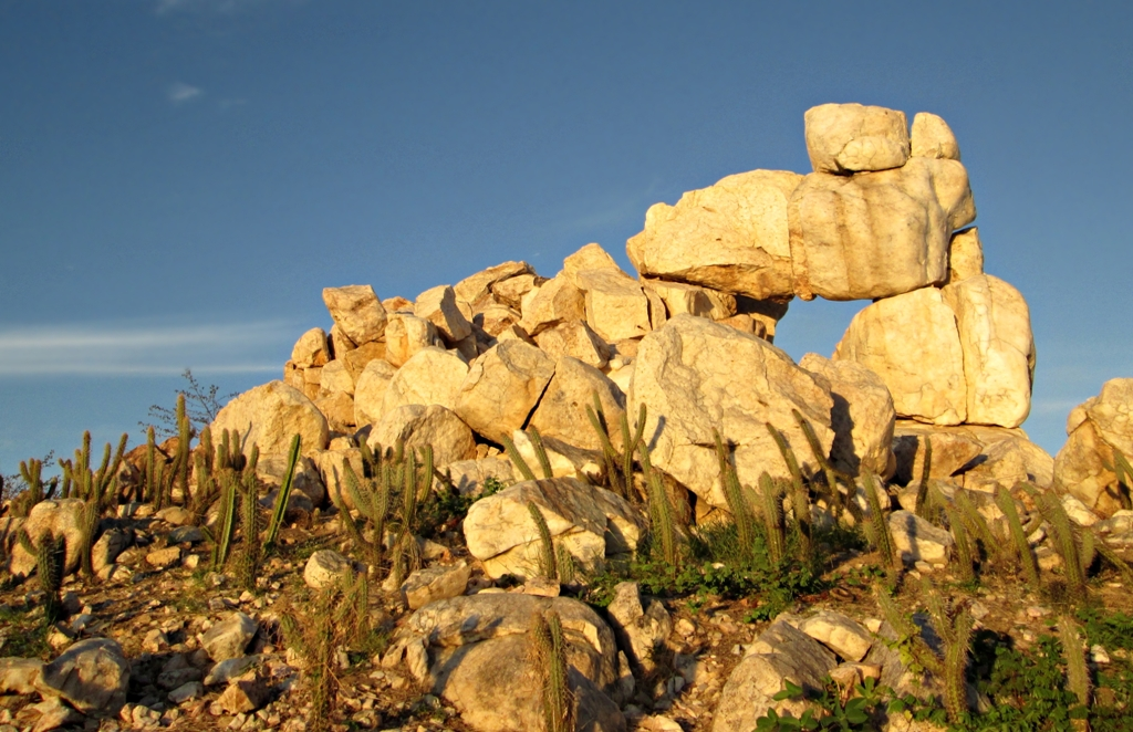 Serrote Branco, no bairro de mesmo nome em Caicó (RN).